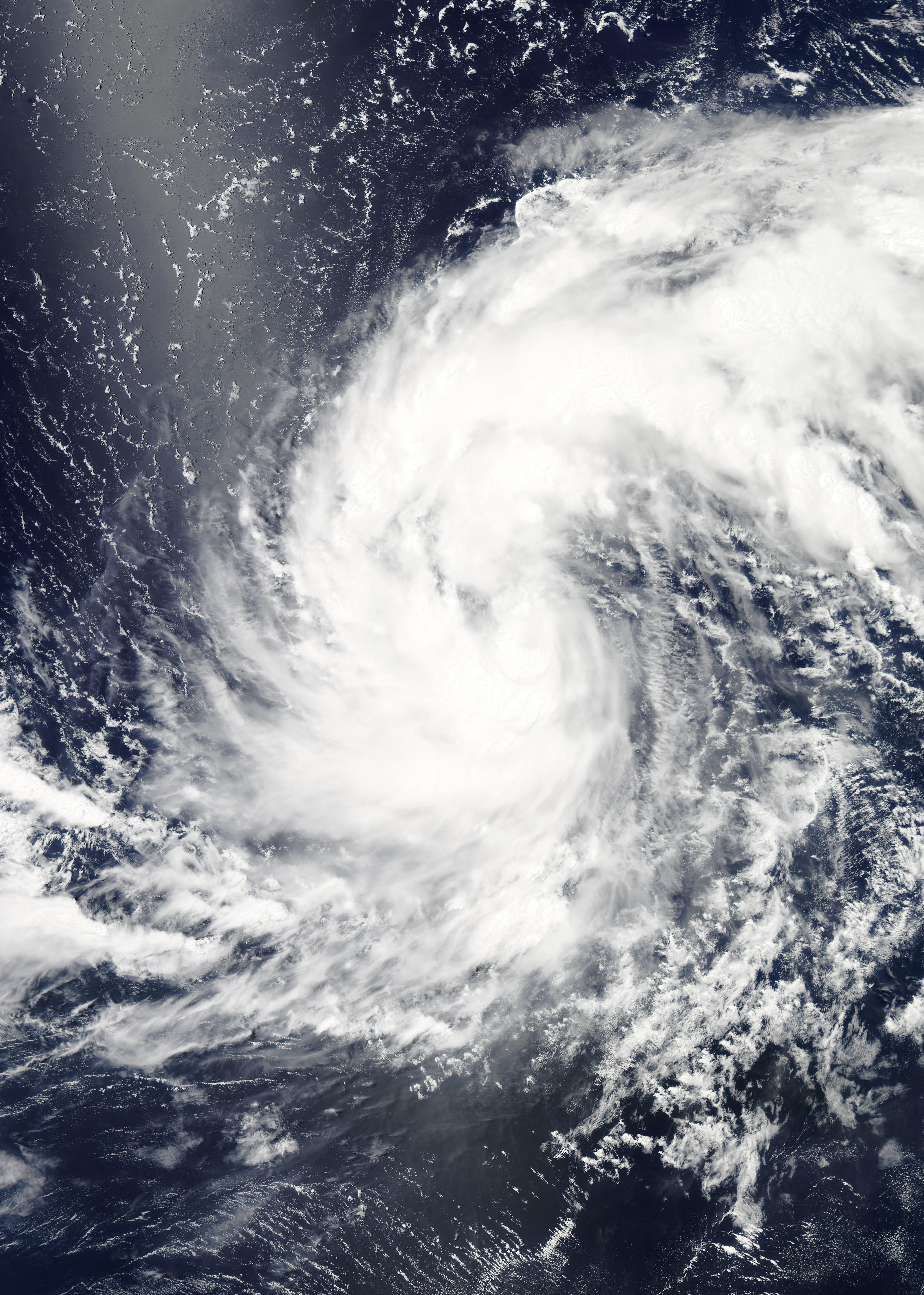 Tropical Storm Chan-hom over Guam.